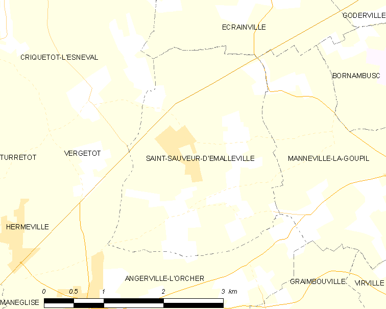 Map of French municipality Saint-Sauveur-d'Émalleville